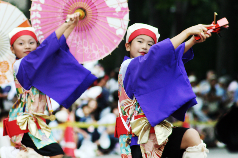 Two performers, labeled "Kamimachi Yosakoi Naruko-Ren", at the 2006 Yosakoi Festival in Harajuku.